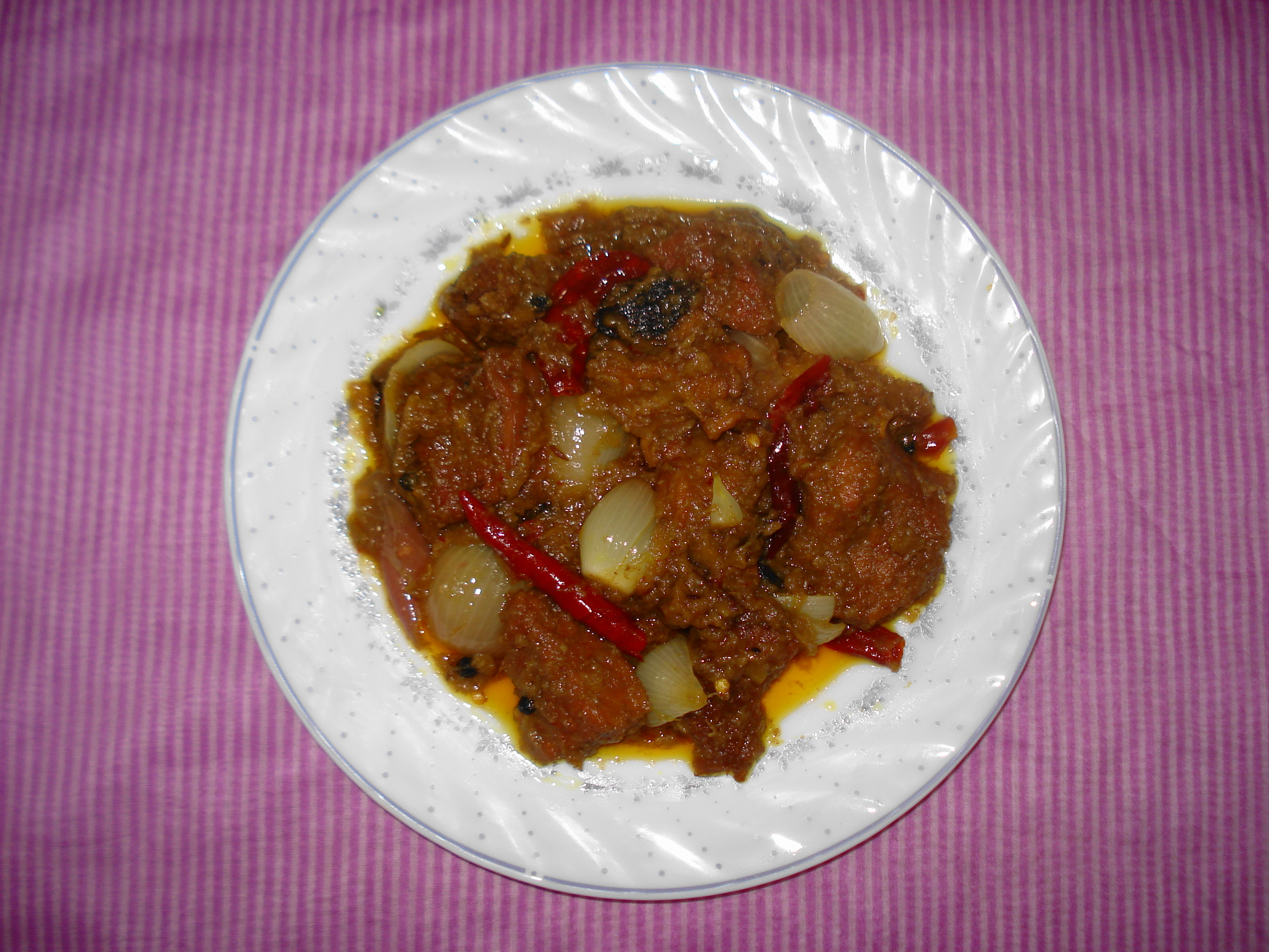 Dopiaza